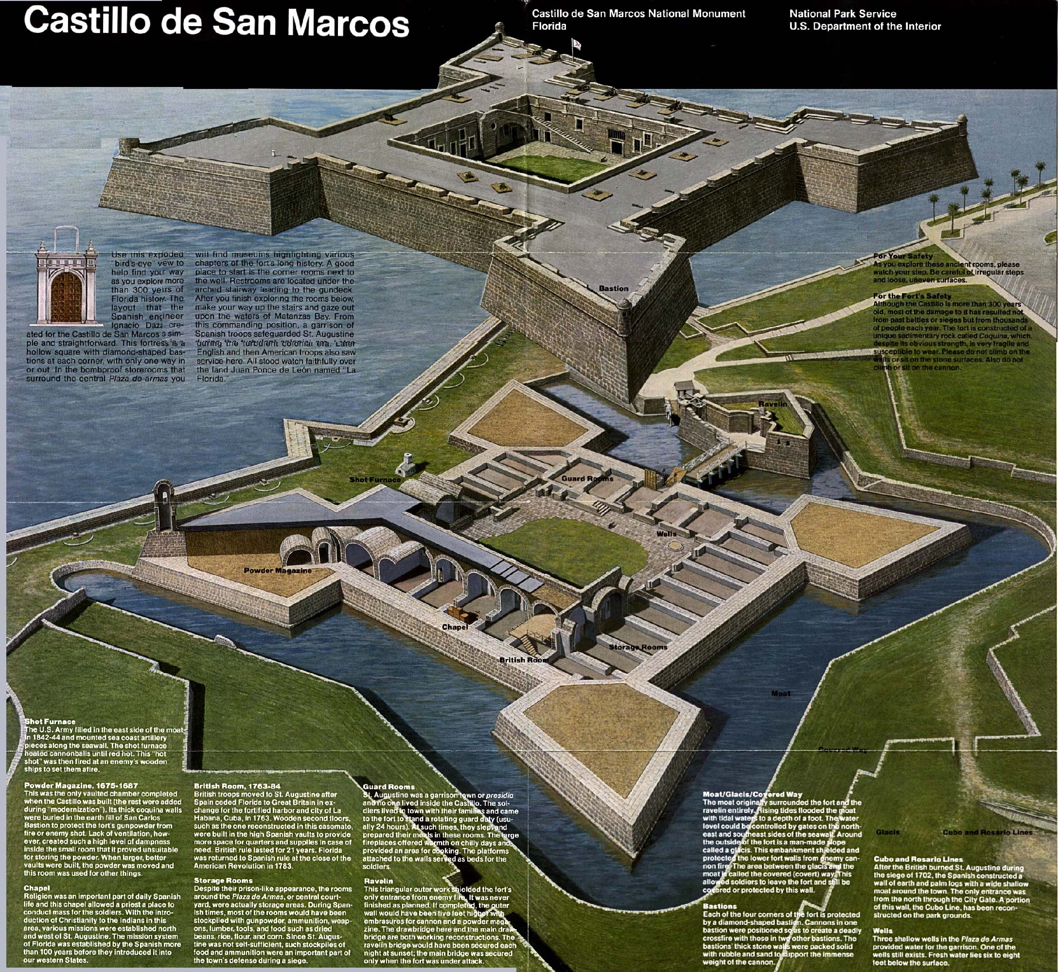 Castillo de San Marcos, St. Augustine Florida